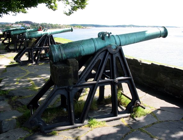 Cannons in Christiansholm Fortress, Kristiansand, Norway